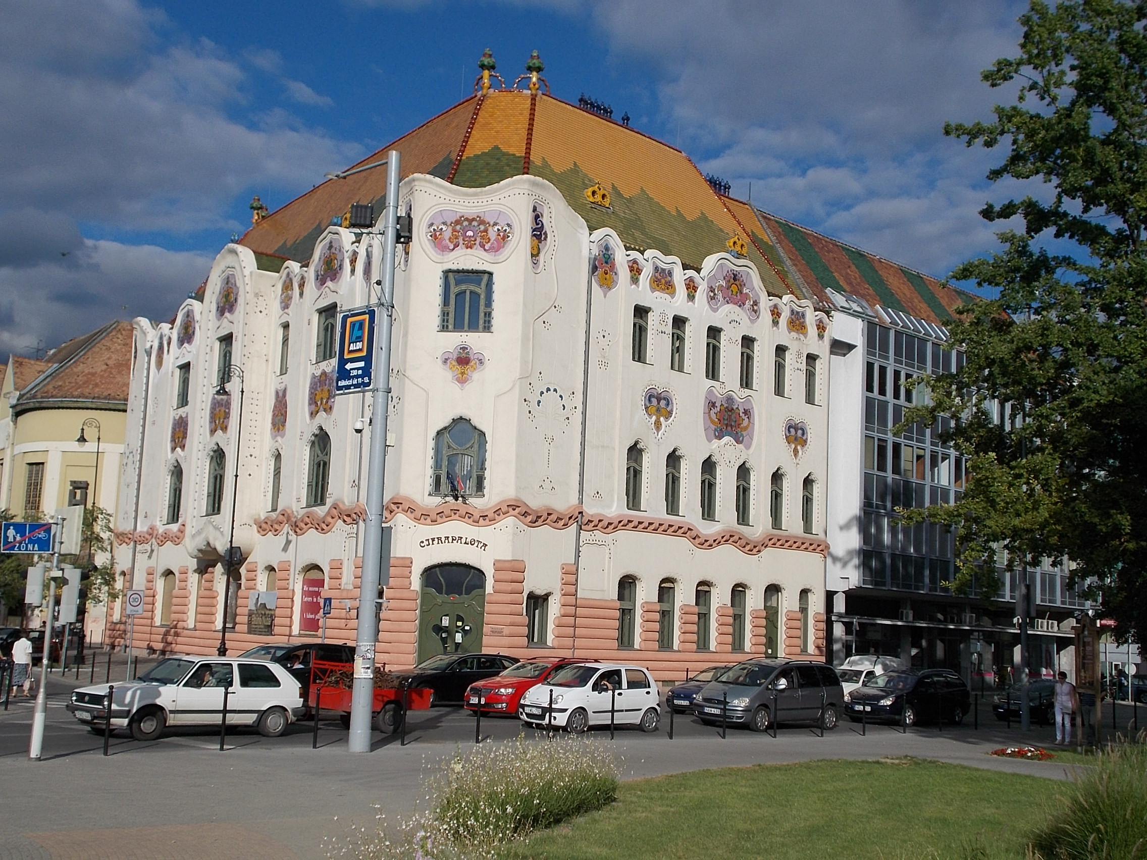 Cifra Palace. Listed Art Nouveau corner building. Cifra means extreme decorated, this name get after its facade has a lot of Zsolnay majolica decorations. - Square, Kecskemét, Bács-Kiskun County, Hungary.